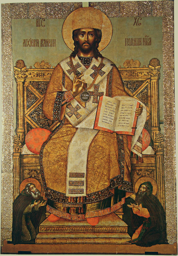 Icon of Christ with Sergey Radonezhsky and Evfimy of Suzdal